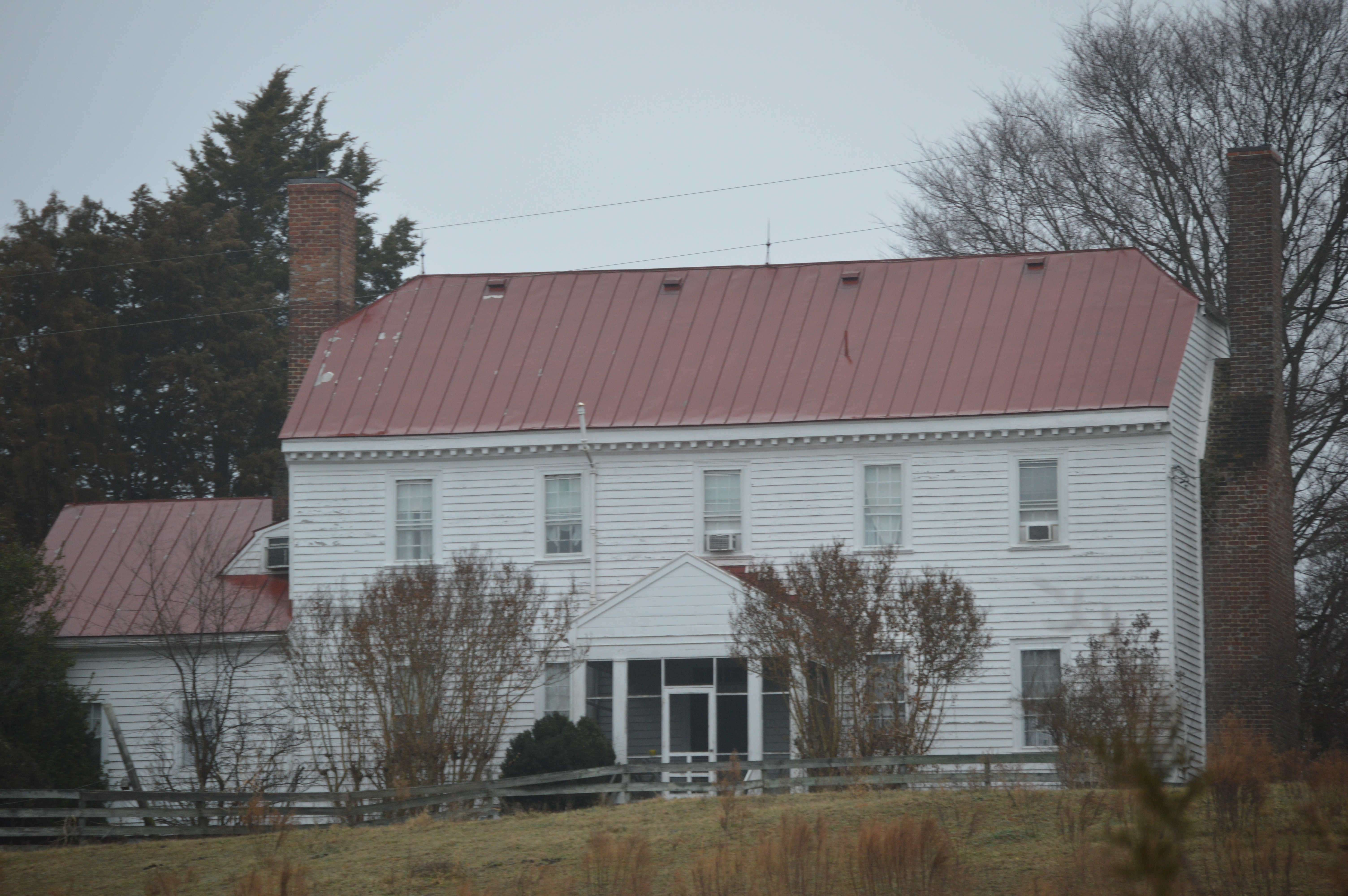 Southwestern front of the Wyoming farmhouse, located on Nelsons Bridge Road north of Studley in King William County, Virginia, United States. Built in 1800, it is listed on the National Register of Historic Places.